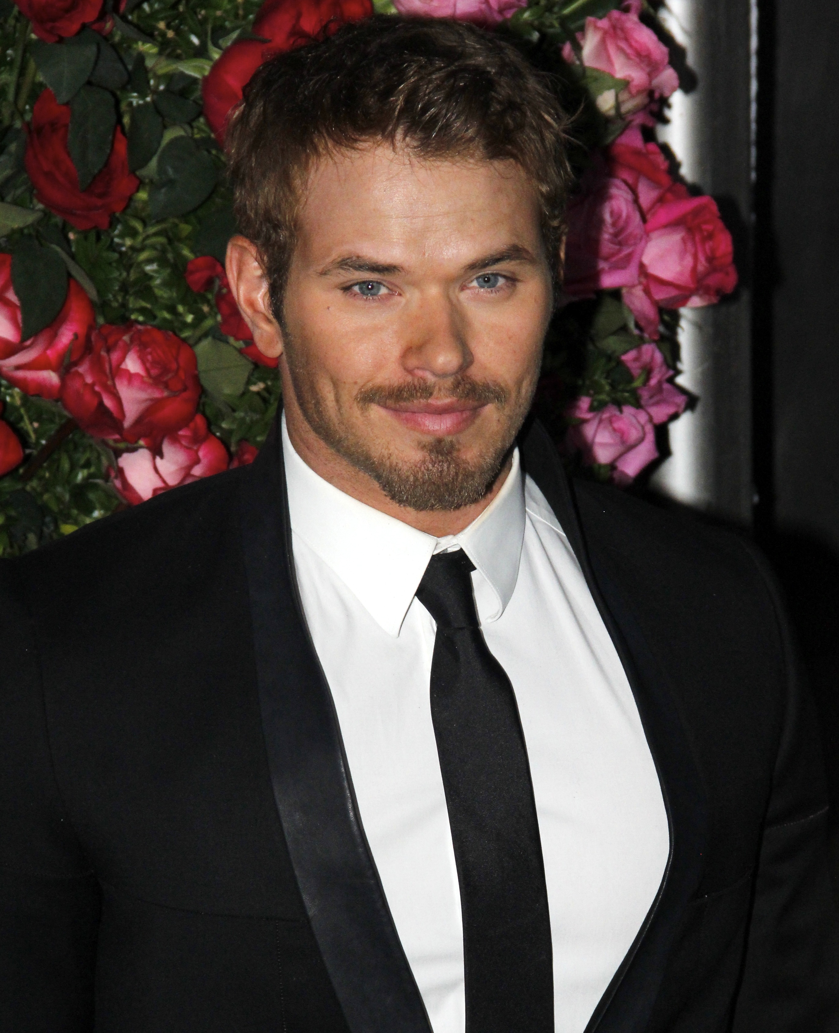 Kellan Lutz at the 7th Annual Chanel Tribeca Film Festival Artists Dinner 2012.